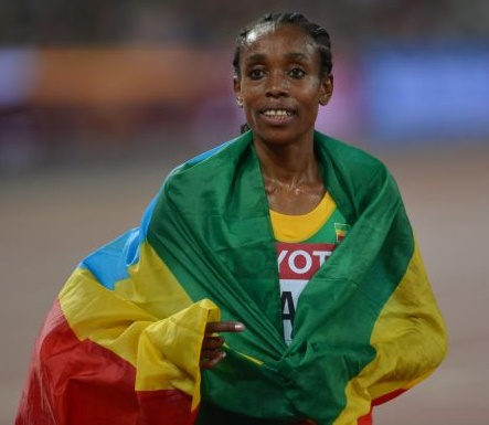 Almaz Ayana, Beijing 2015